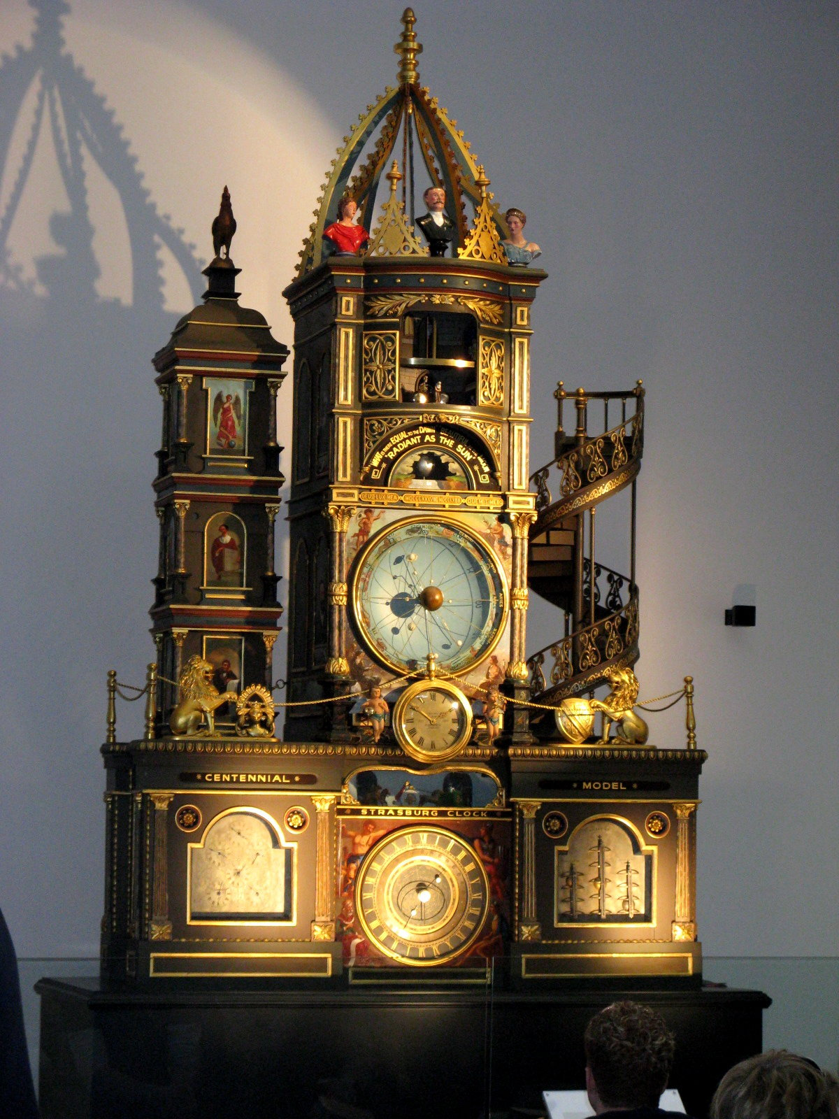 Clock at Powerhouse museum, replica of the astronomical clock in the cathedral of Strasbourg, France